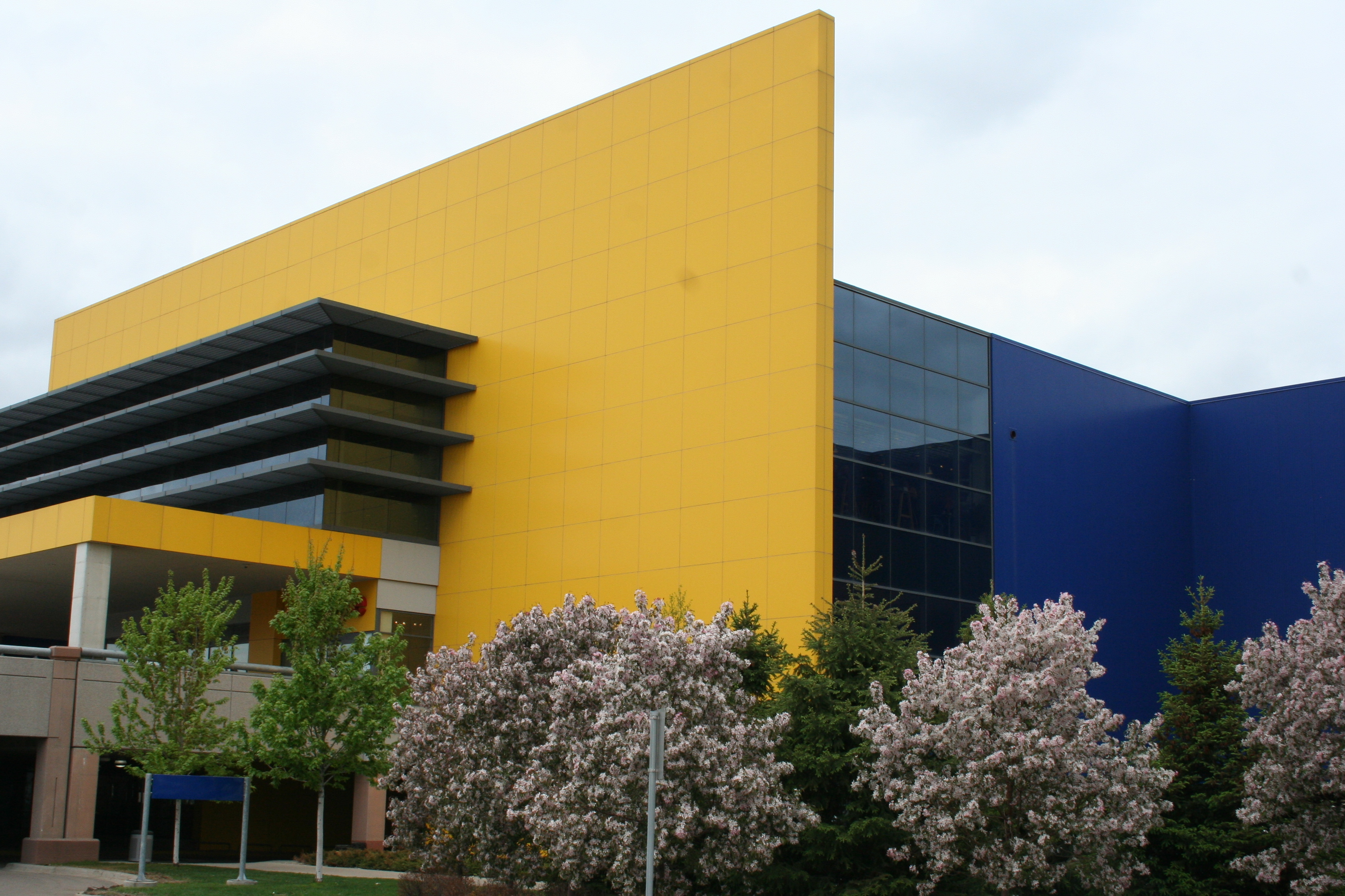 IKEA store near the Mall of America in Bloomington, Minnesota.